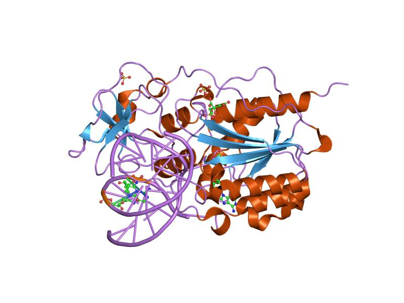 Cartoon representation of the molecular structure of protein registered with 2c7q code.